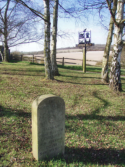 Upper Bush North Downs Way milestone in the centre of this lovely hamlet.